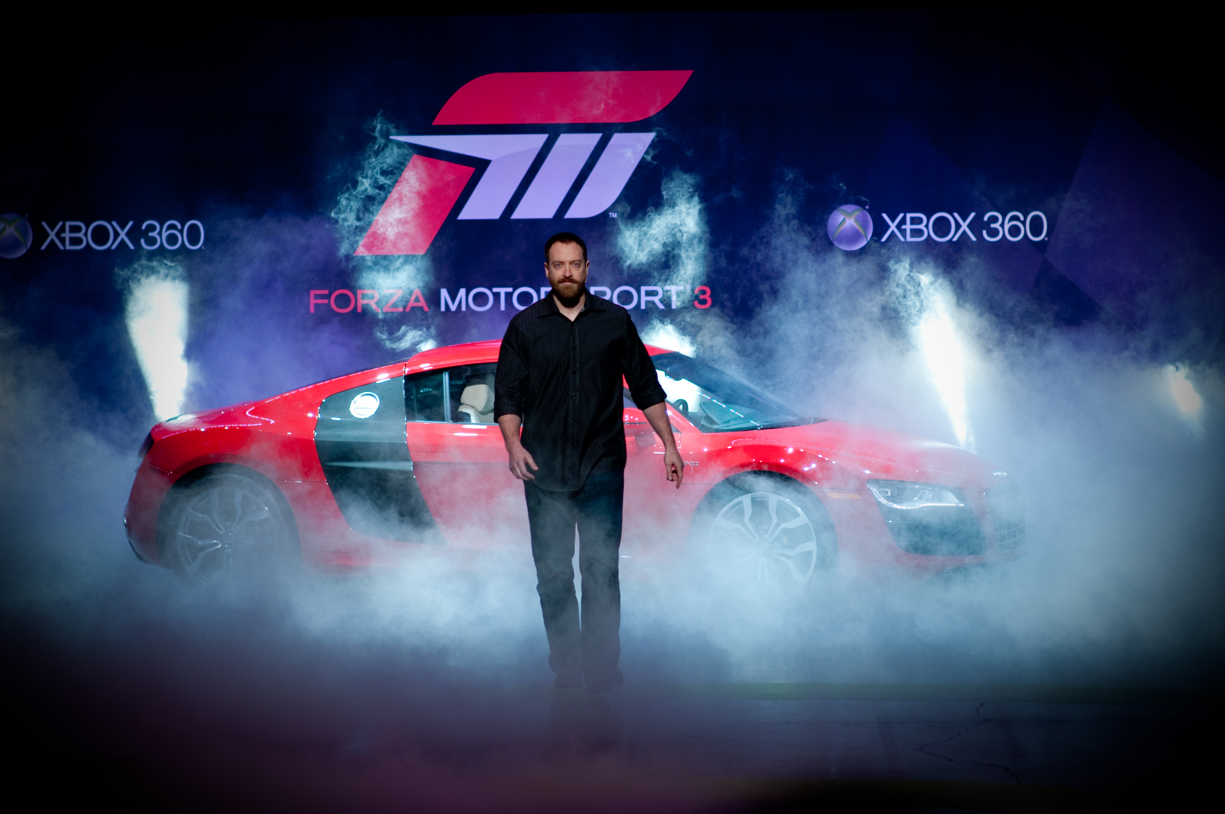 Dan Greenawalt presentation of Forza Motorsport 3 at the Microsoft conference during E3 2009.